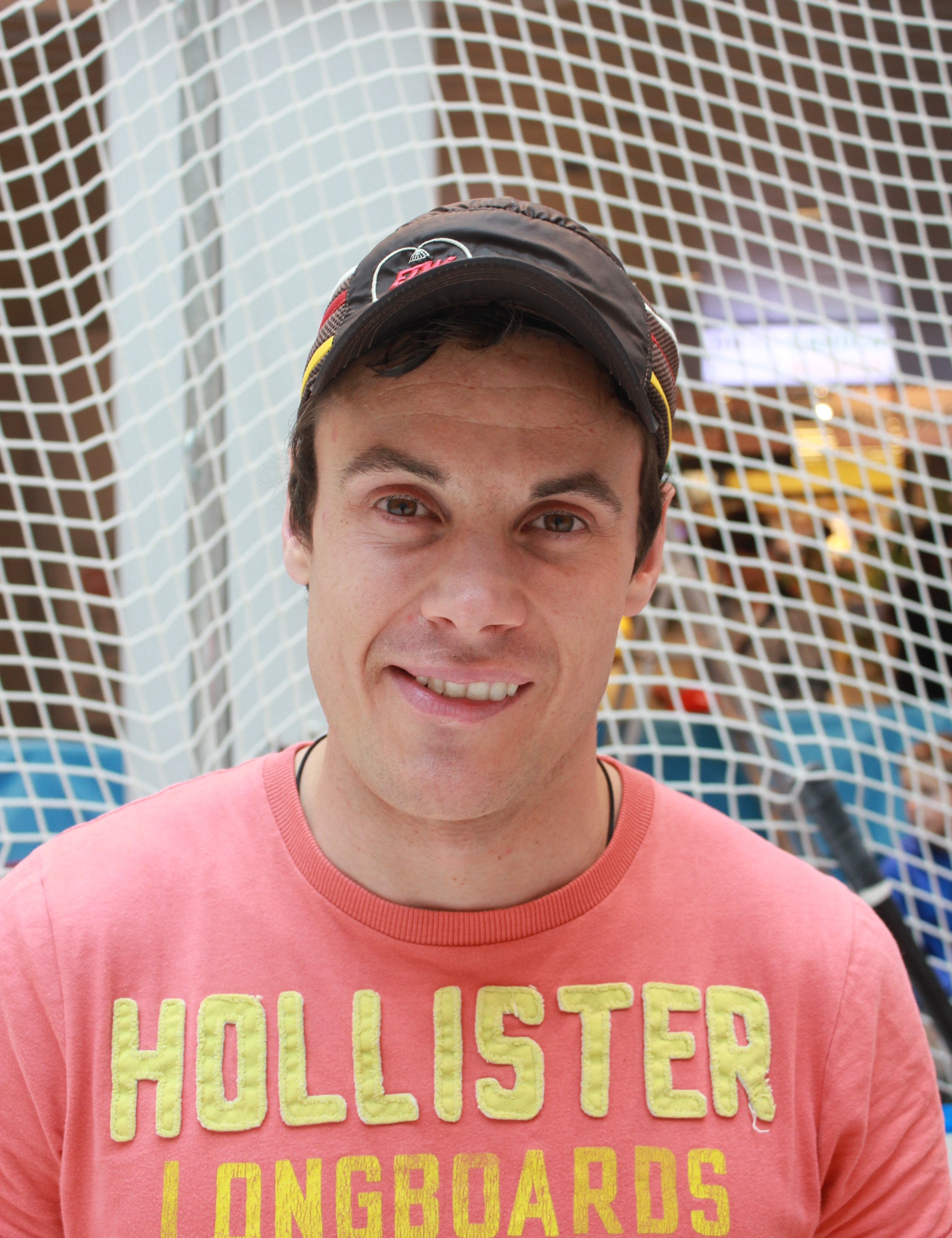 Swiss Ice hockey forward Duri Camichel who is currently playing for Rapperswil-Jona Lakers in National League A.